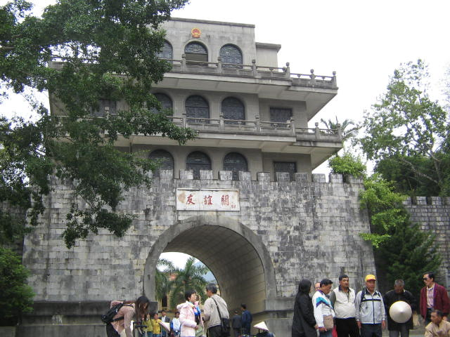 Youyi Guan (友谊关) on China-Vietnam border